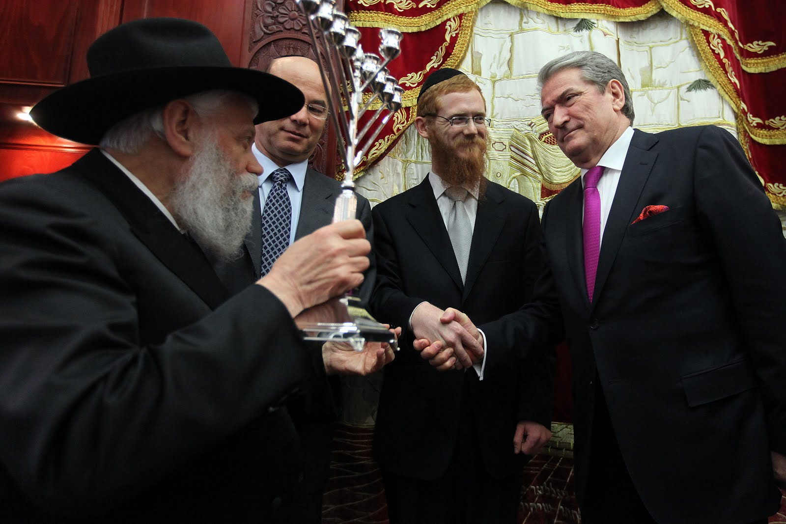 Rabbi Yoel Kaplan, chief Rabbi of Albania, shaking hands with Albanian Prime Minister Sali Berisha, Brussels, 15 April 2010